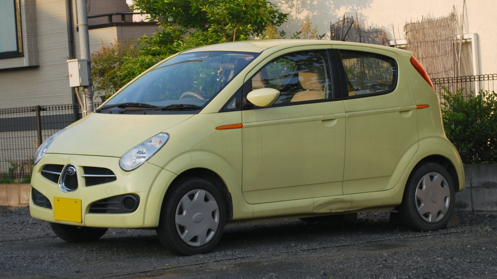 Subaru R2 (2003/12 - 2005/11